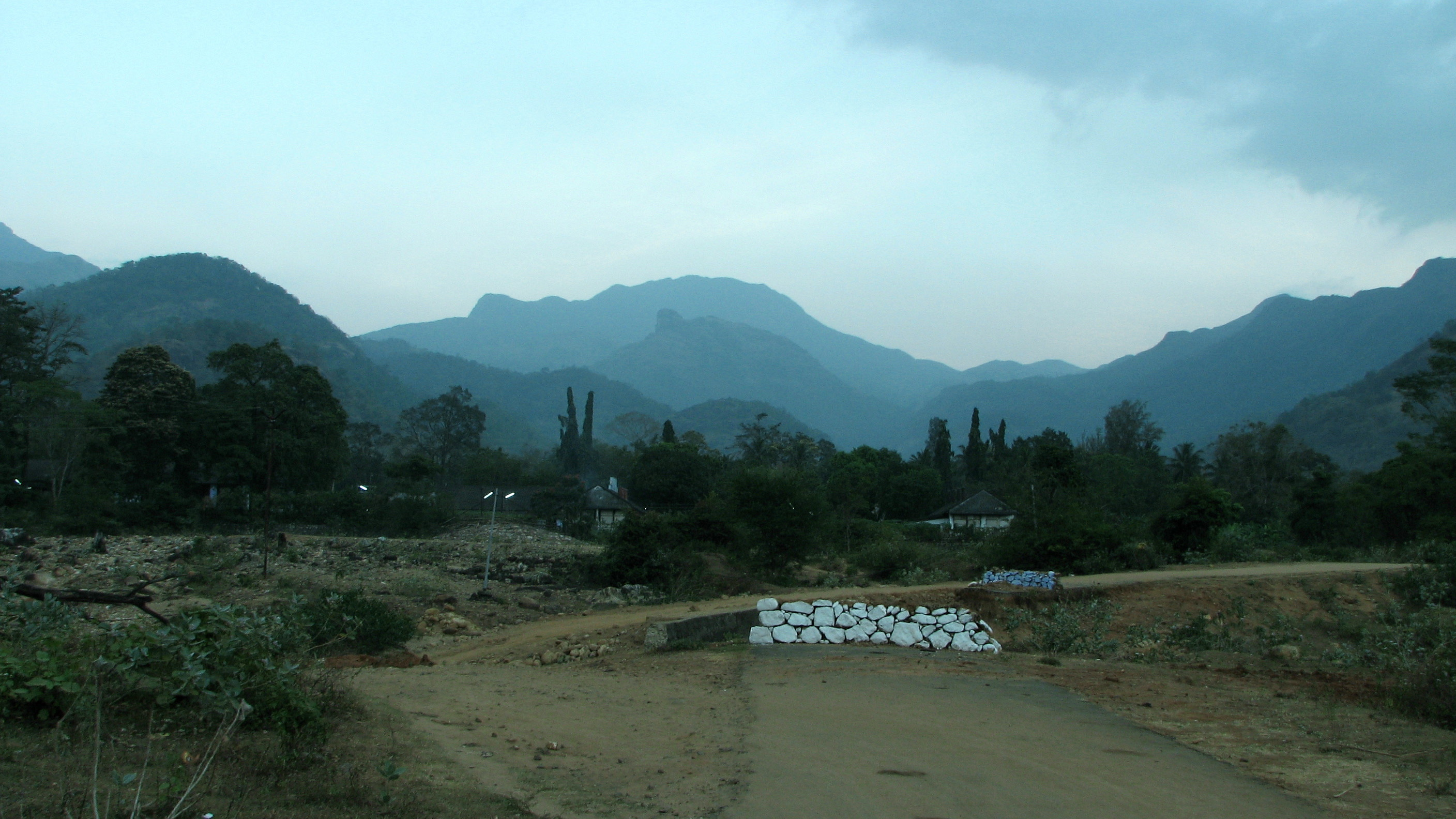 self-made image ; Author : Infocaster